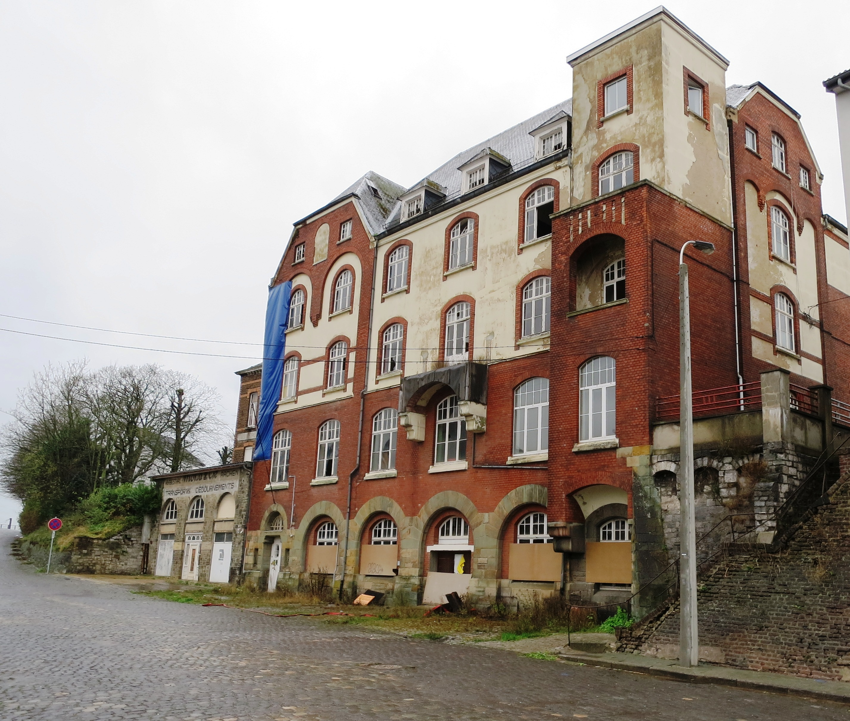 Herbesthal's former international mail sorting centre in 2015